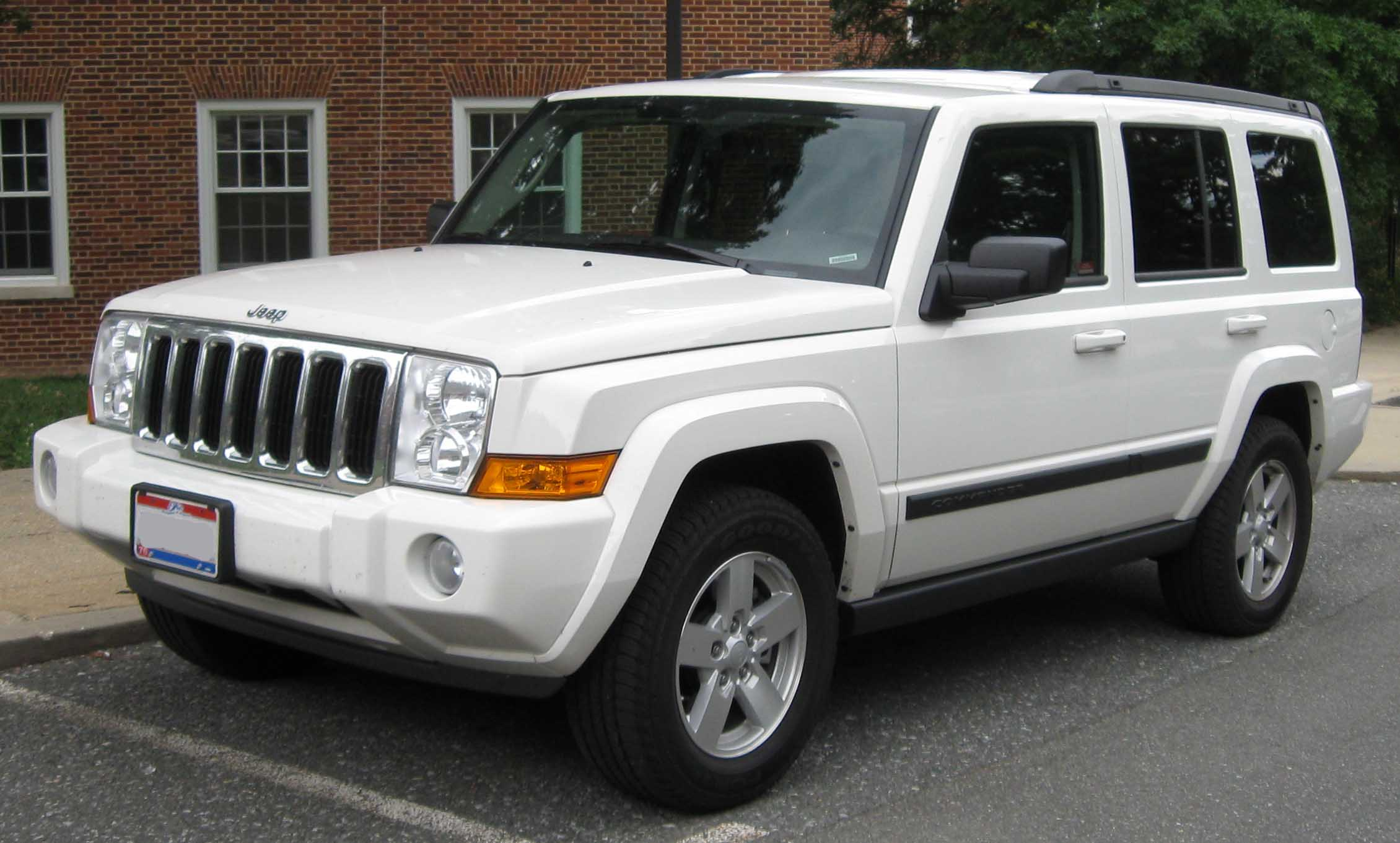 2006-2008 Jeep Commander photographed in College Park, Maryland, USA.